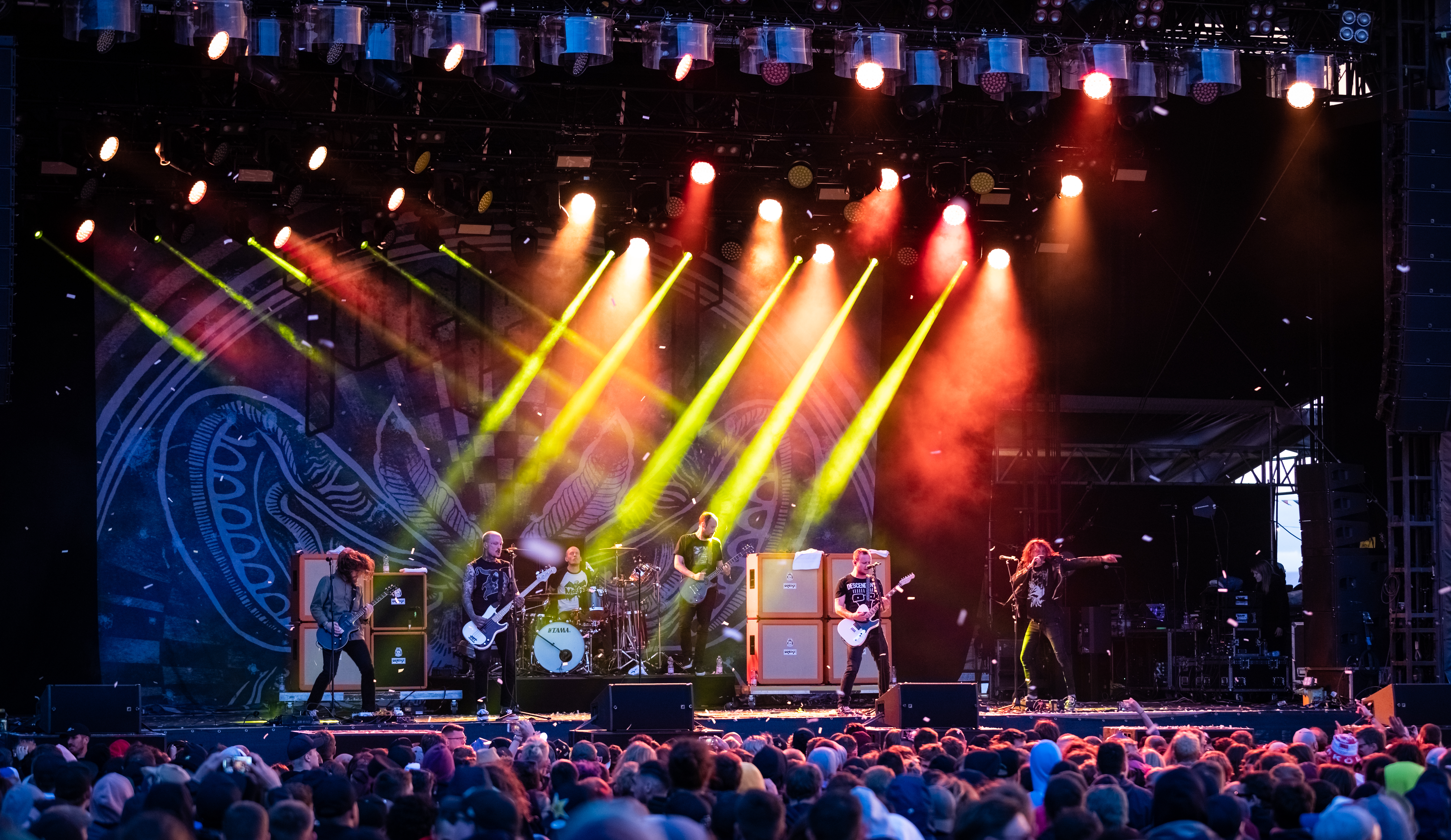 Kvelertak - Rock am Ring 2019